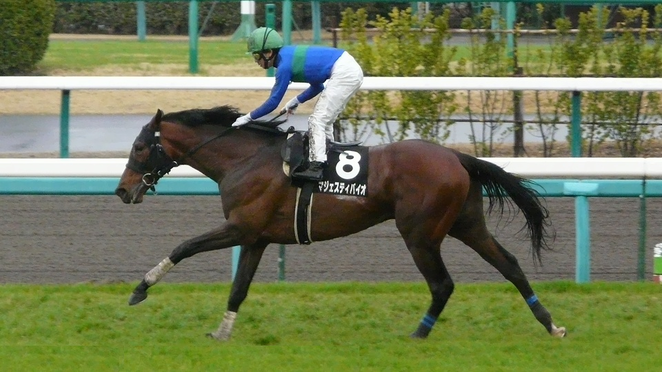 Majesty-bio20120324